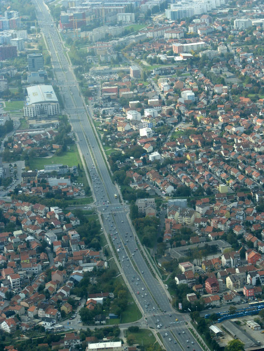 Zagrebačka Avenue, Zagreb, from the air